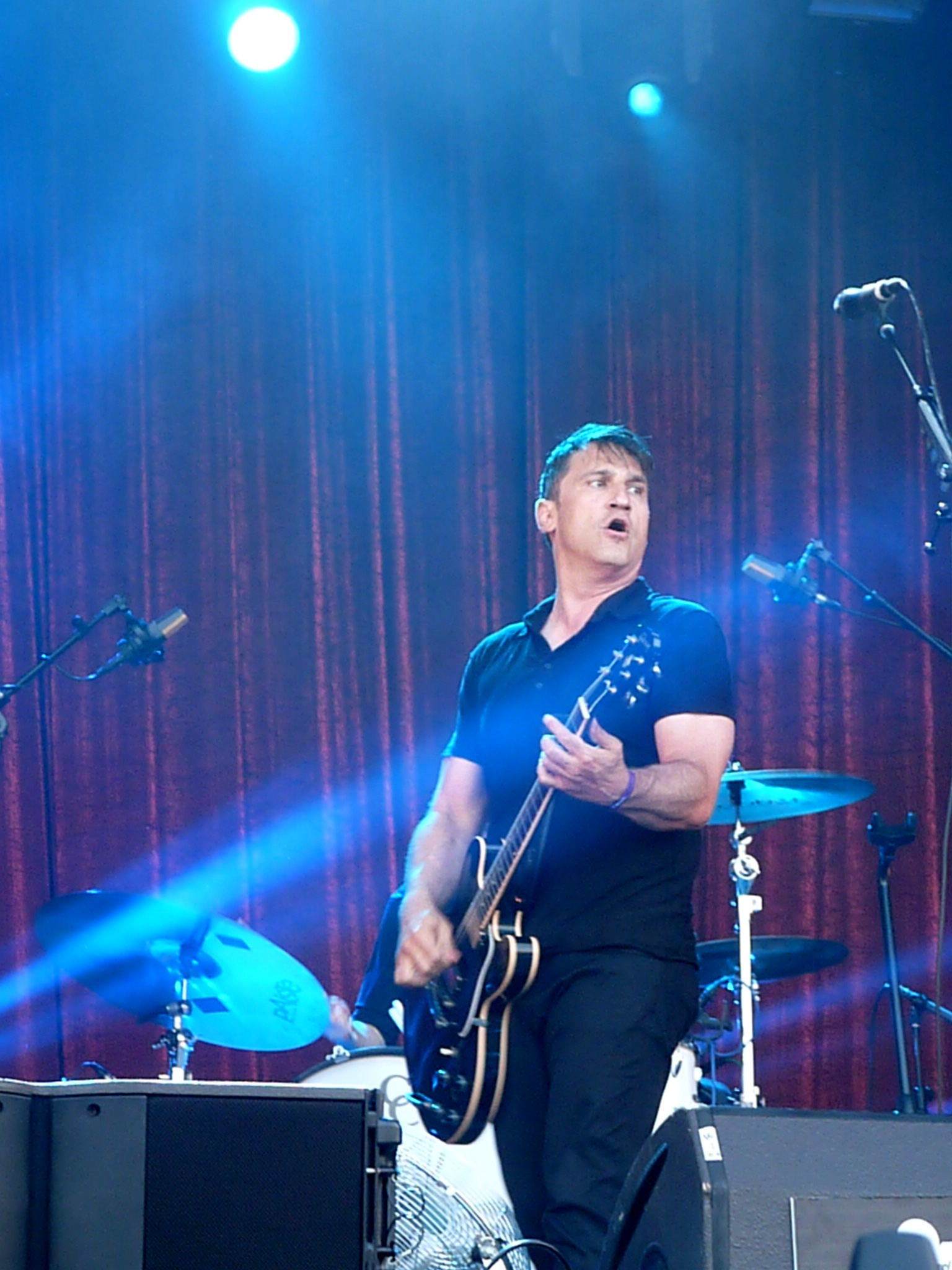 Greg Dulli performing with The Afghan Whigs at Primavera Sound in Barcelona, 2012